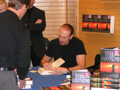 Mystar1959 is webmaster of .